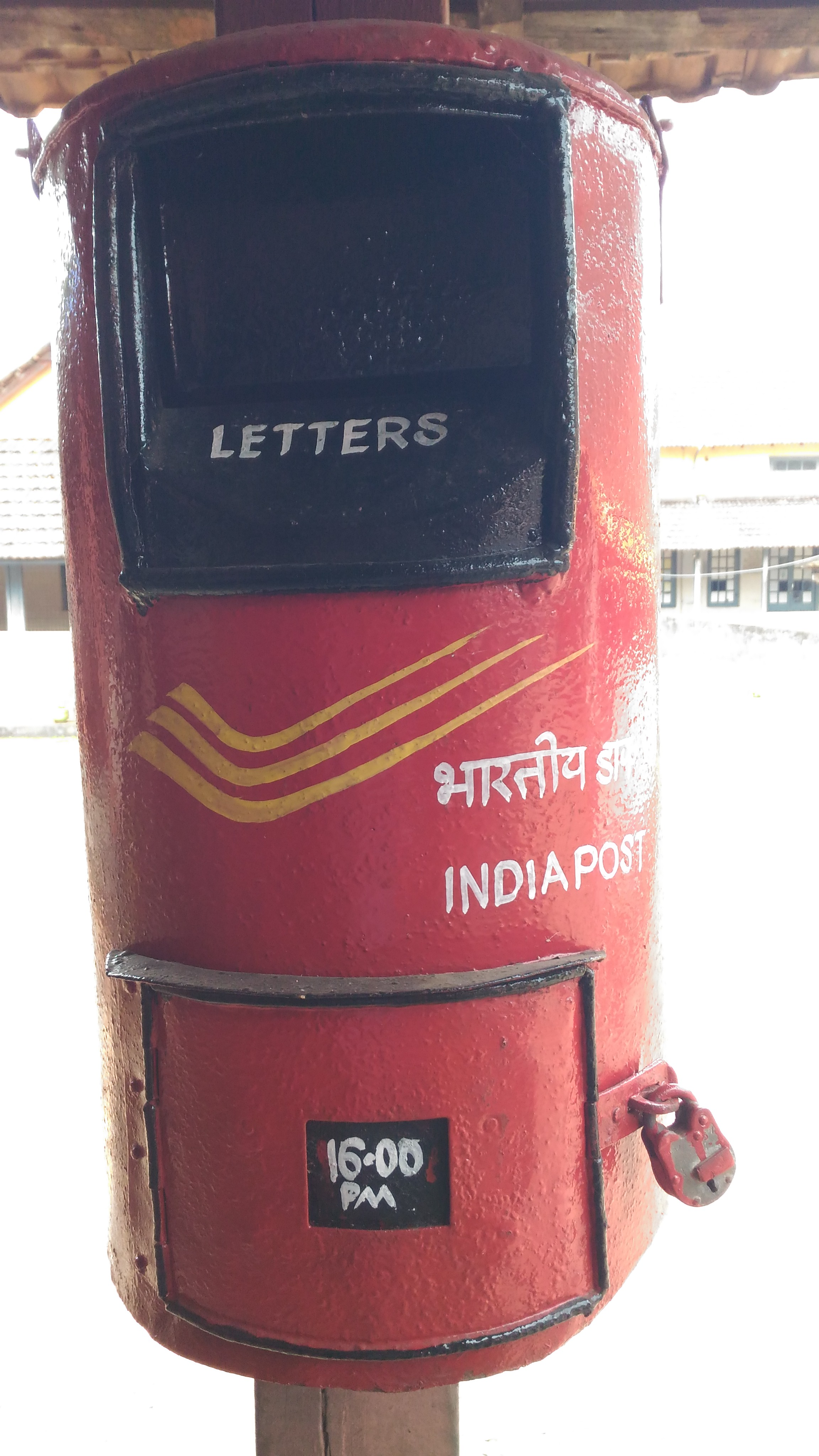 Indian Postal department_Postal box